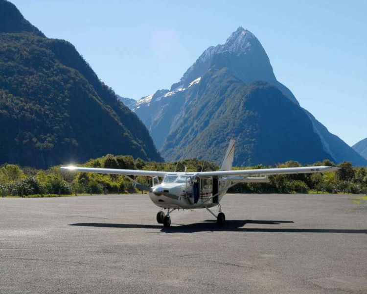 Glenorchy Air's GA8 LOR in Milford Sound New Zealand